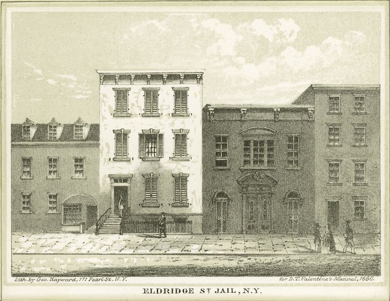 Lithograph of the Eldridge St. Jail in New York